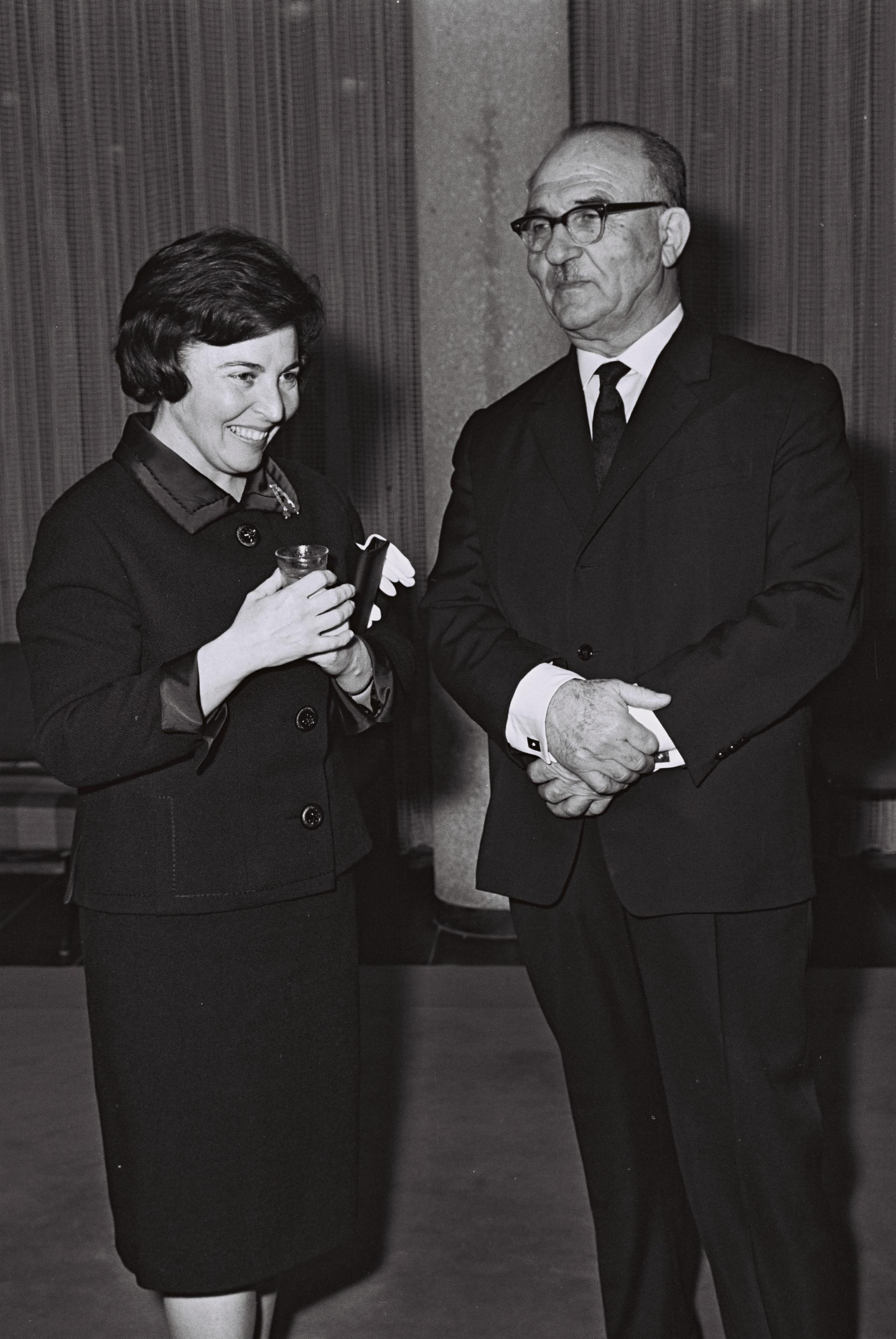 P.M. LEVY ESHKOL AND HIS WIFE MIRIAM DURING A RECEPTION FOR THE ZIONIST EXECUTIVE COMMITTEE AT BEIT ELISHEVA IN JERUSALEM.